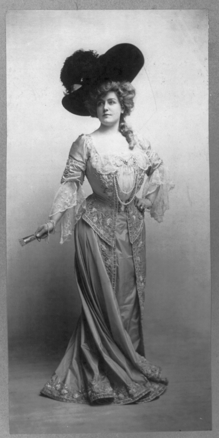 Lillian Russell, 1861-1922, full length, standing, facing left; in elegant gown